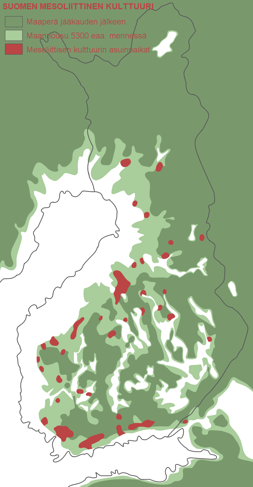 Dates from 8500 - 5300 BC.